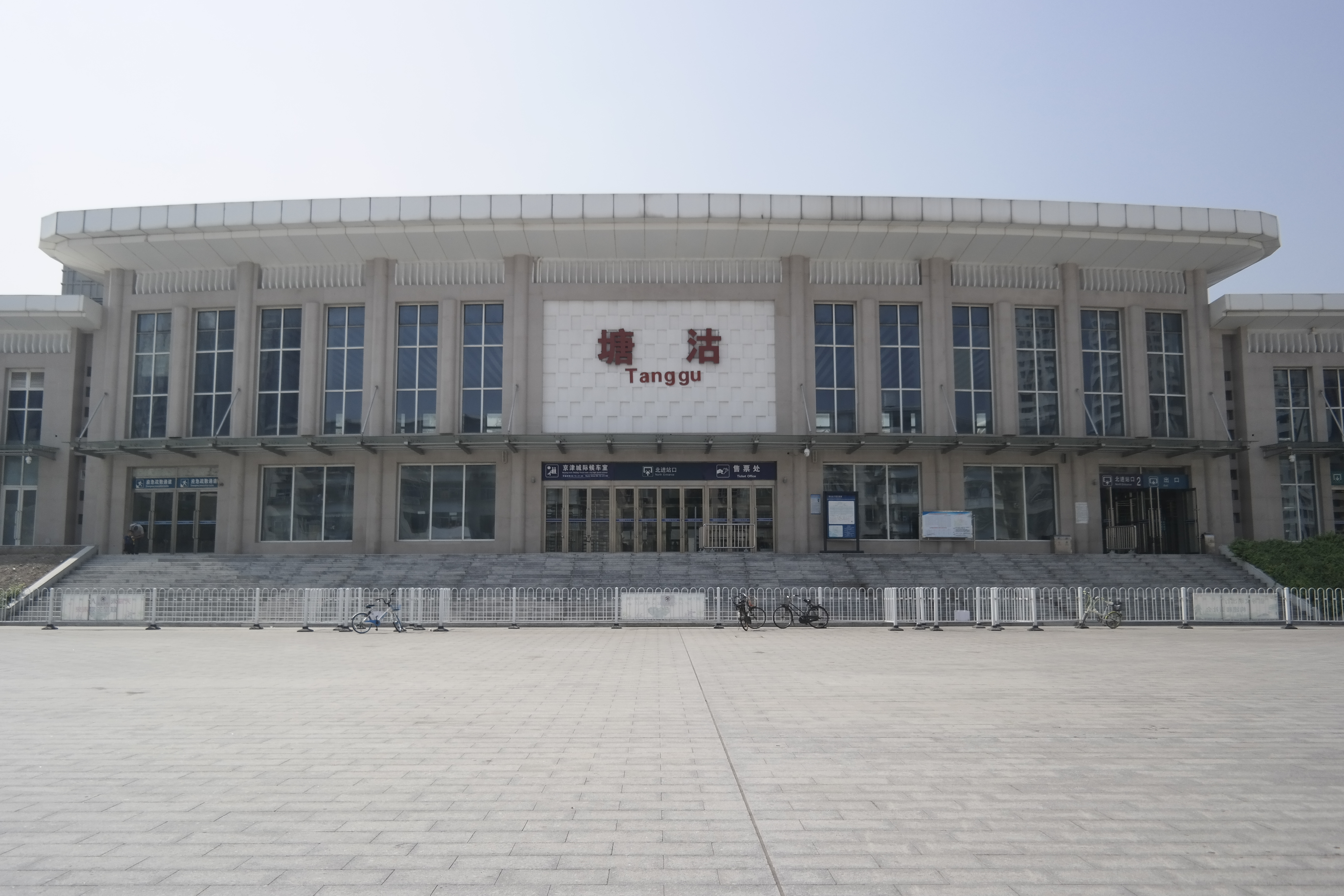 Tanggu Railway Station